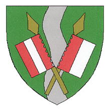 Coat of arms of Jedenspeigen, Lower Austria